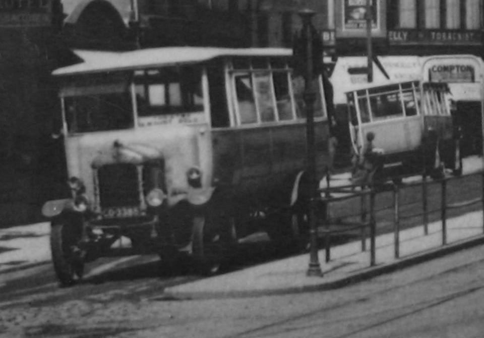 Two of Plymouth Corporation Transport Department's single deck petrol-engined buses wait for business at The Theatre, the central tram terminus.